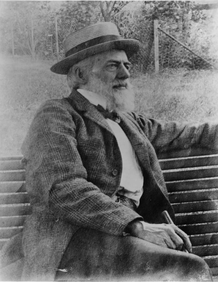 Joshua Pusey (1842-1906) photographed c. 1895. He was the inventor of the paper match book.